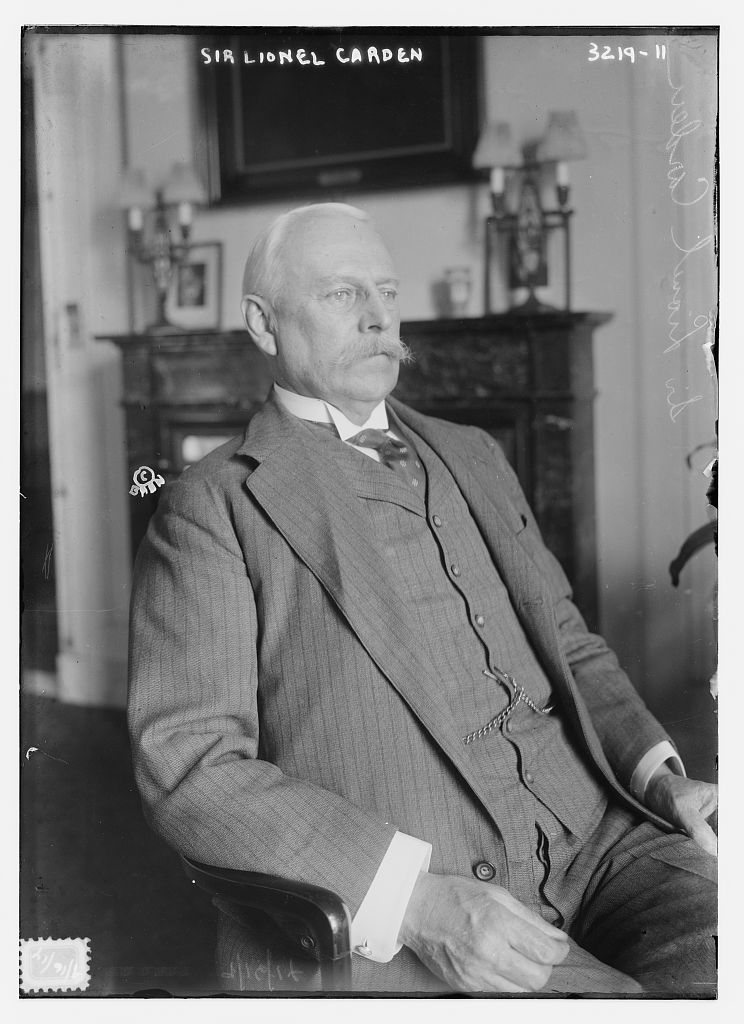 Lionel Edward Gresley Carden circa 1910 facing right